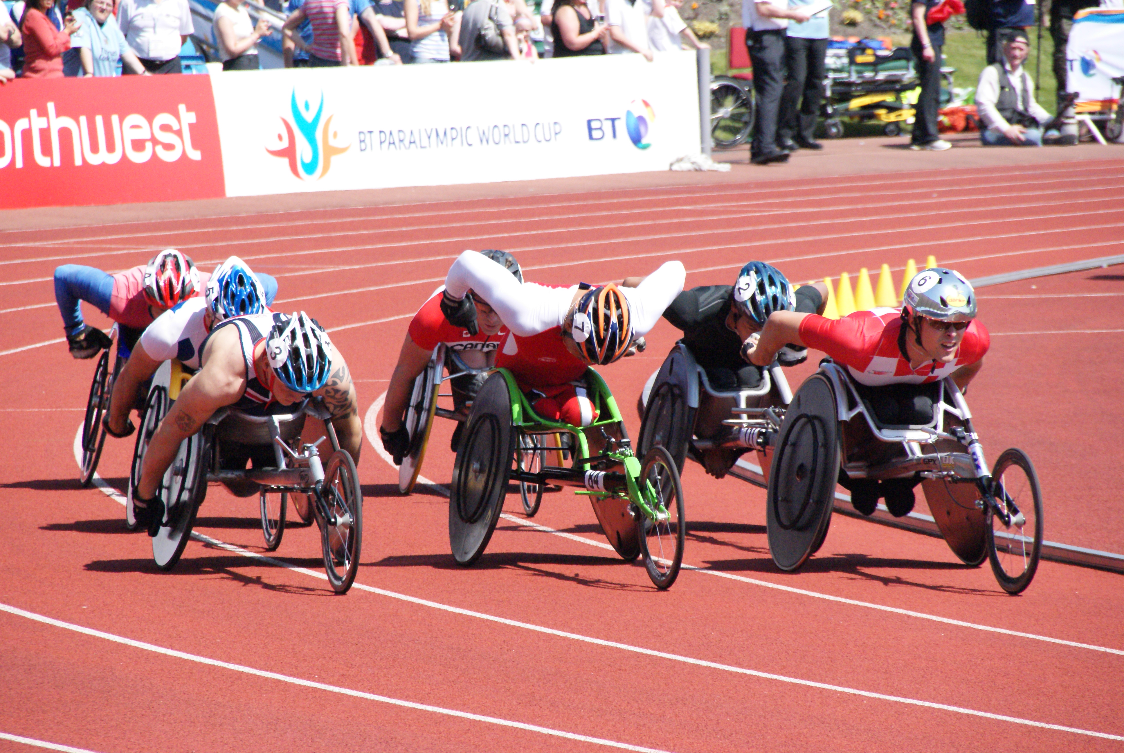 BT Paralympic World Cup 2009 Athletics: Men's T54 - 800 Metres. Lane order Mathieson, Konjen, David Weir, Koysub, Julien Casoli.